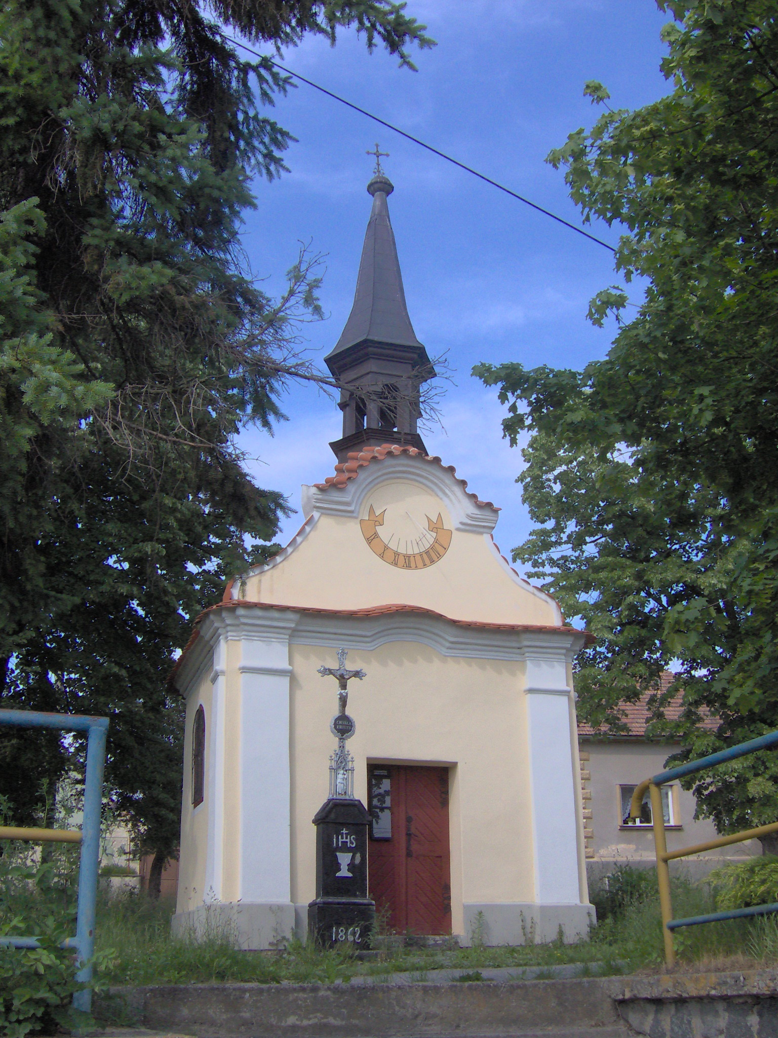 Chapel in Dražejov, part of Strakonice, Strakonice District, Czech republic